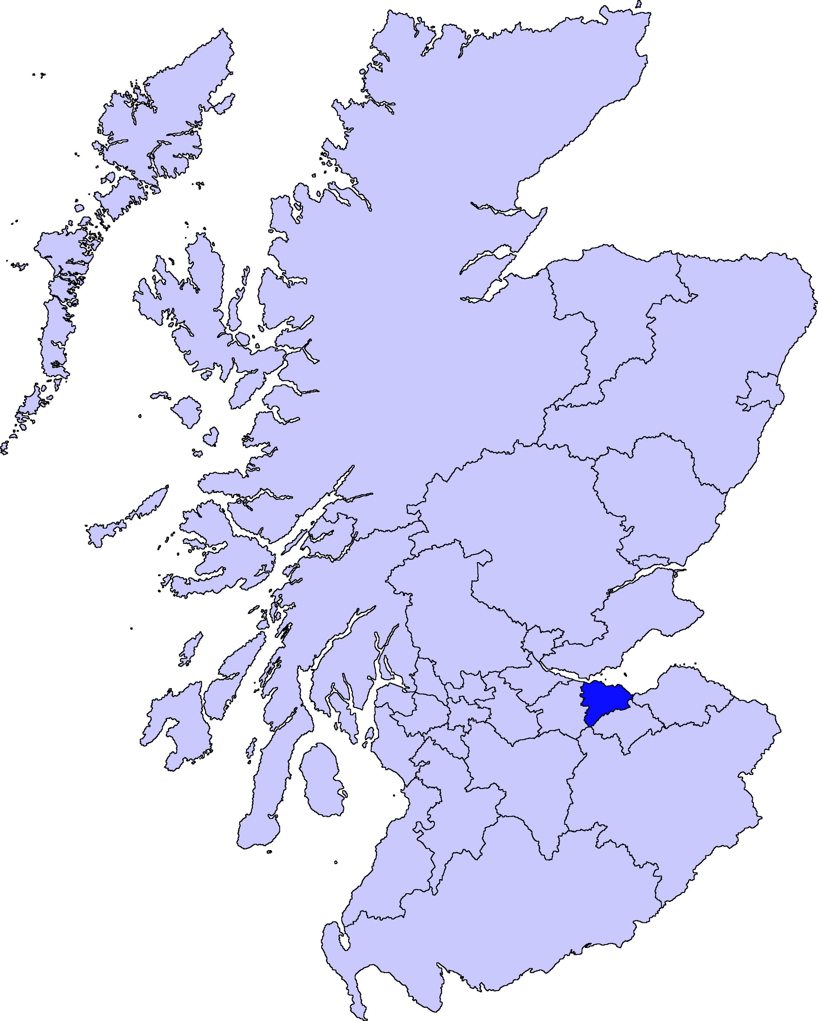 map of Edinburgh